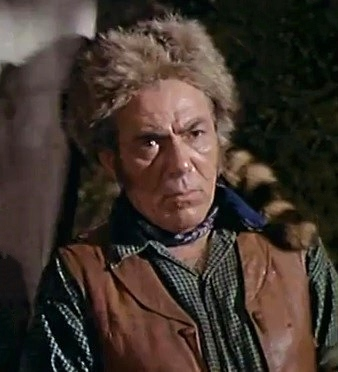 Louis Mercier in the TV series Bonanza, episode The Last Viking (cropped screenshot)